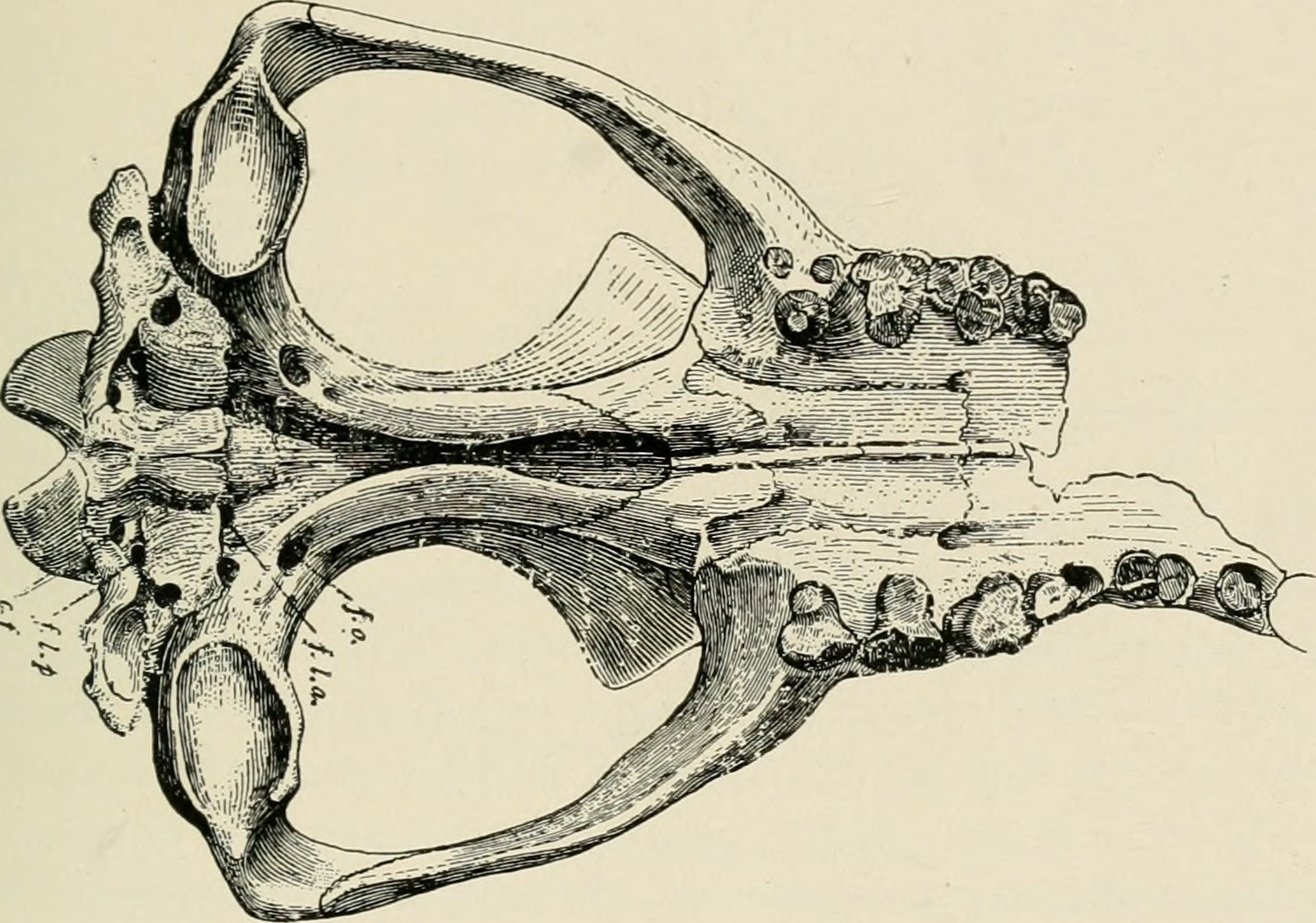 Title: The American Museum journal Year: c1900-(1918) (c190s) Authors: American Museum of Natural History Subjects: Natural history Publisher: New York : American Museum of Natural History Text Appearing Before Image: FOSSIL CAHNIVGRA 35 Mesonychid.-e. Tvpe: Mesonyx, skull etc, Wall-case No. 6. These animals had the limbs and feet specialized for swift running, and the feet tipped with fiat hoof-like claws. The teeth are quite peculiar, they have no shearing edges, and the crown is composed of three rather high blunt-topped conical cusps. In Text Appearing After Image: FIG. 12. SKULL OF MESONYX Upper Eocene of Utah. After Osborn the upper jaw these are in a triangle, one cusp inside, two out- side; in the lower jaw they are in series, the central one being much the highest. The Mesonychidas are found in all the Eocene strata from the oldest to the youngest, and show a series illustrating the gradual evolution of their peculiar type of tooth. The massive blunt- cusped teeth, generally very much worn, suggest that they were used for crushing bones or other hard food, and that the animal fed upon carrion, like the modem hysena. (See Fig. i.)